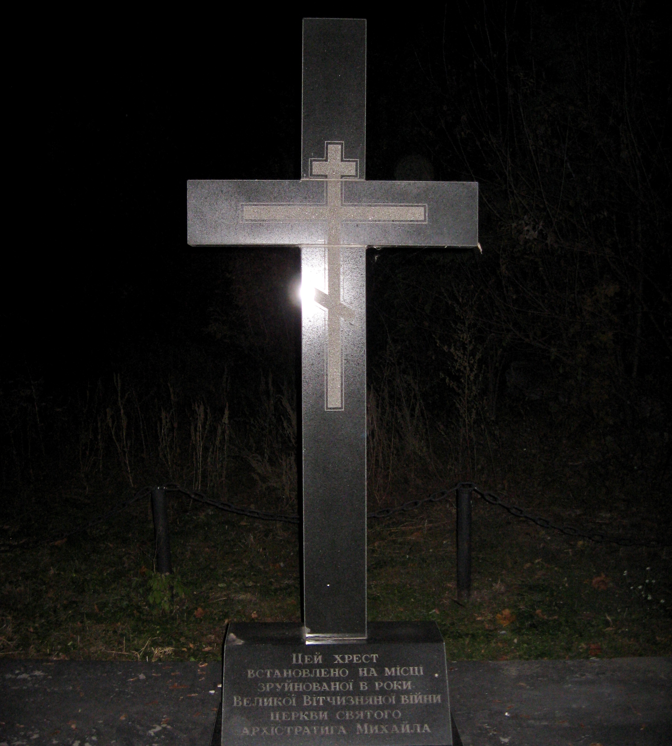 Cross in Liubartsi, Boryspil Raion, Kyiv Oblast, Ukraine